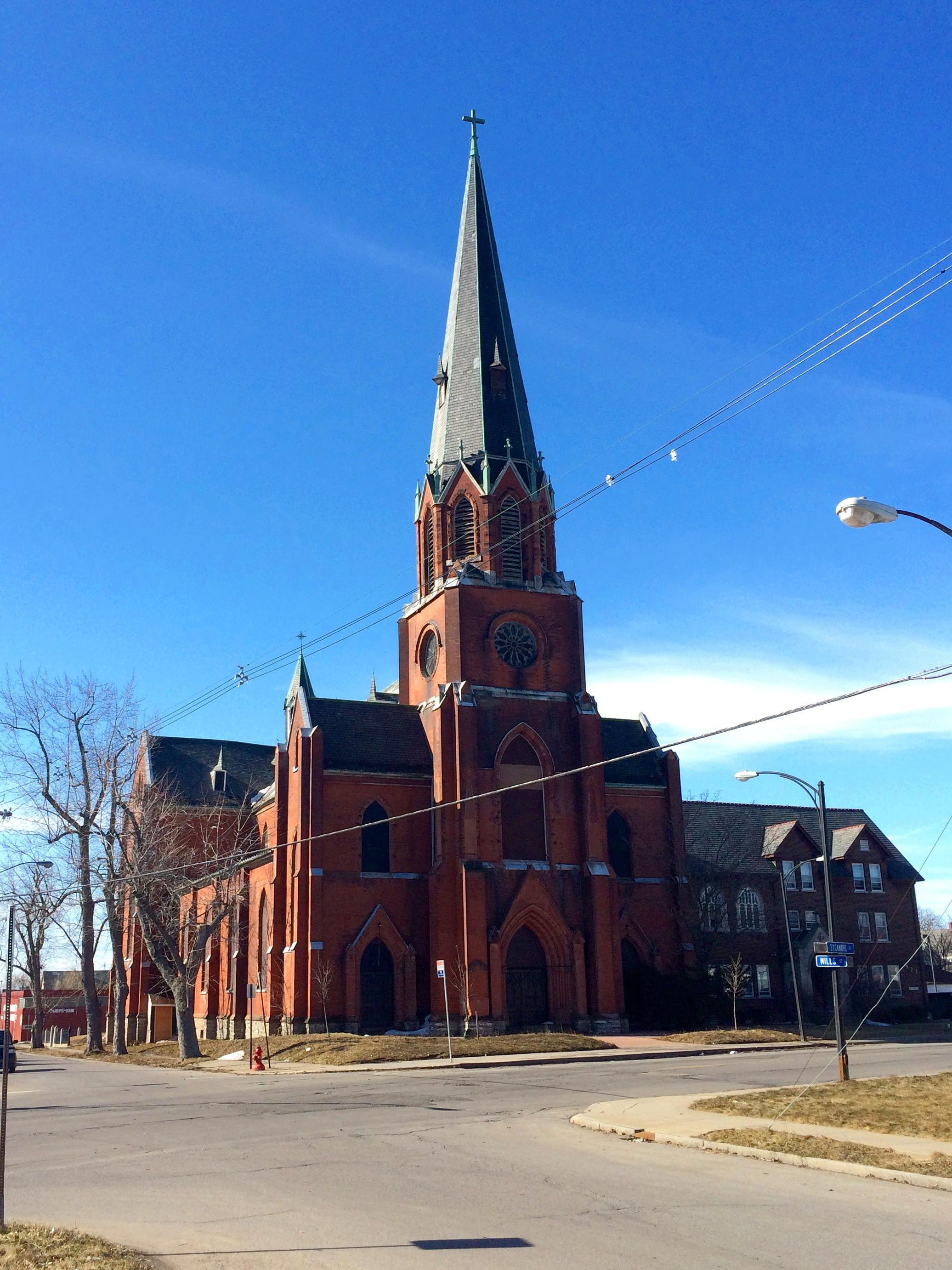 The former Transfiguration Catholic Church, Sycamore Street at Mills Street, Buffalo, New York.